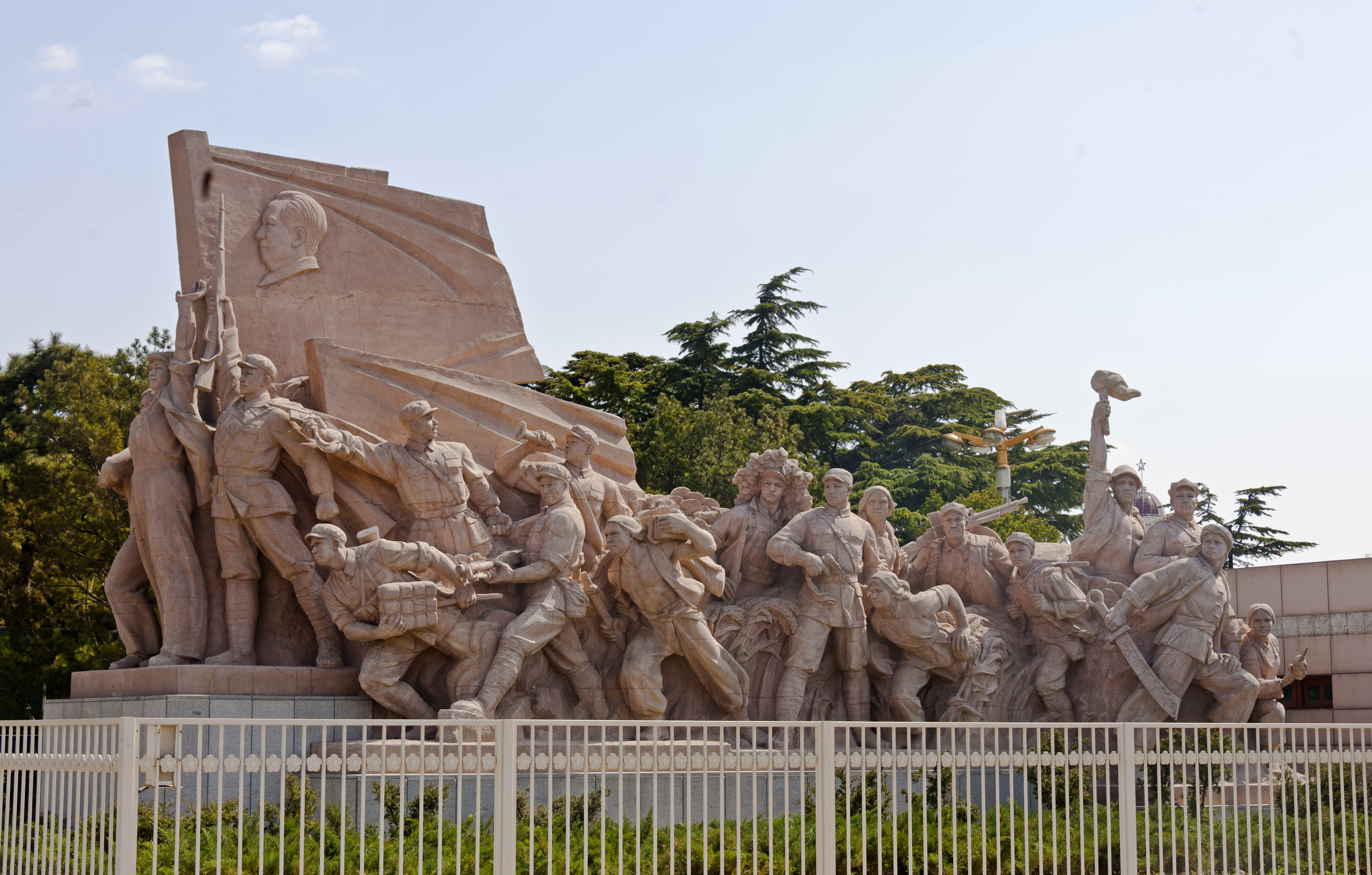 Sculpture of soldiers fighting at entrance to Mausoleum of Mao Zedong on Tiananmen Square